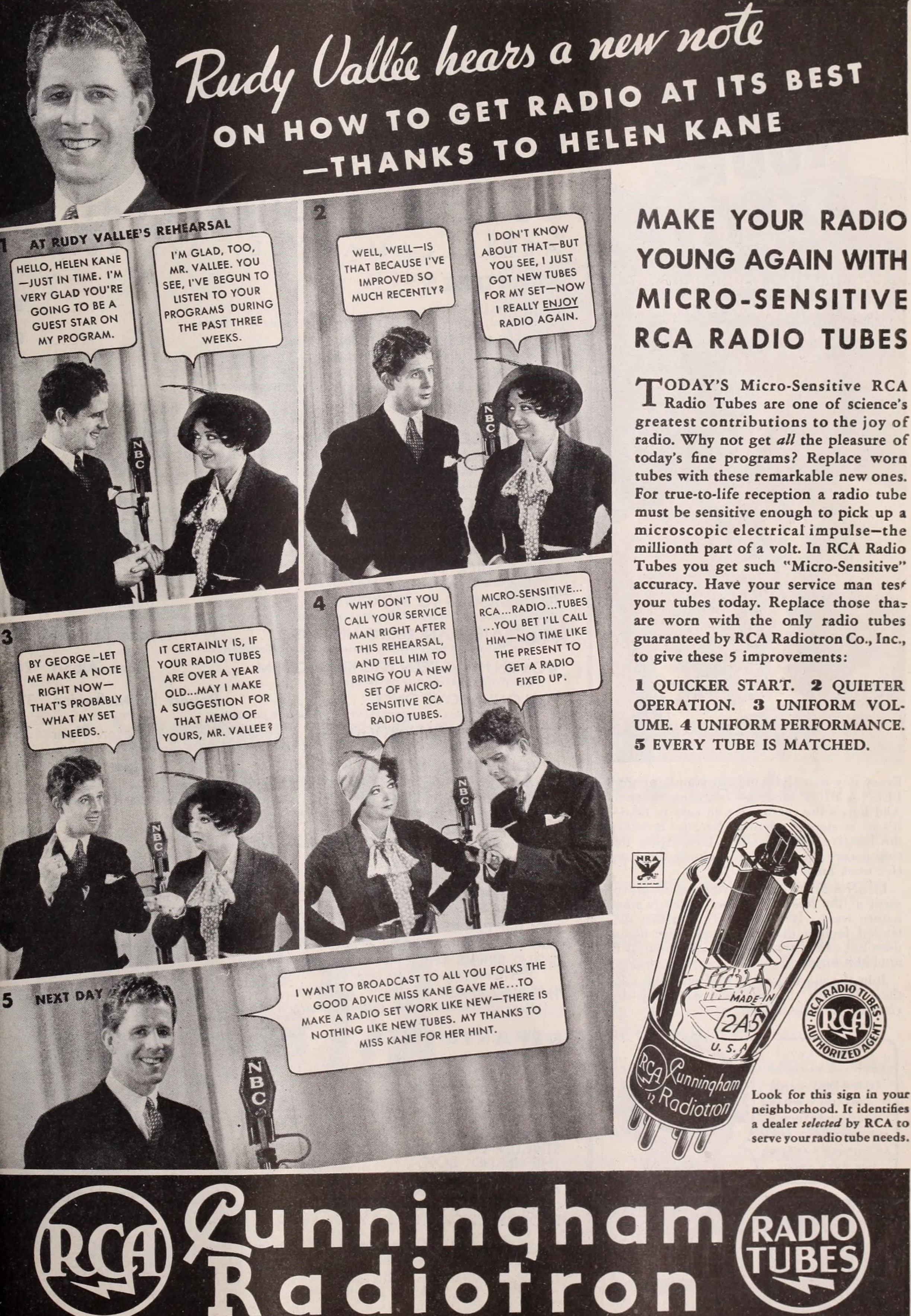 Radio Stars, September 1934